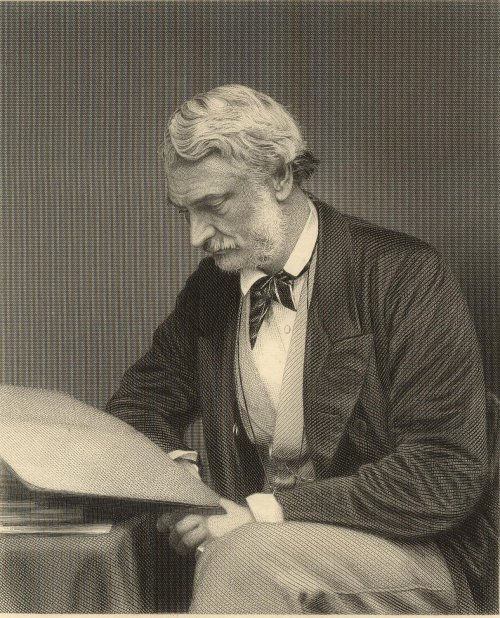 Image cropped, rotated, and scaled using The GIMP.